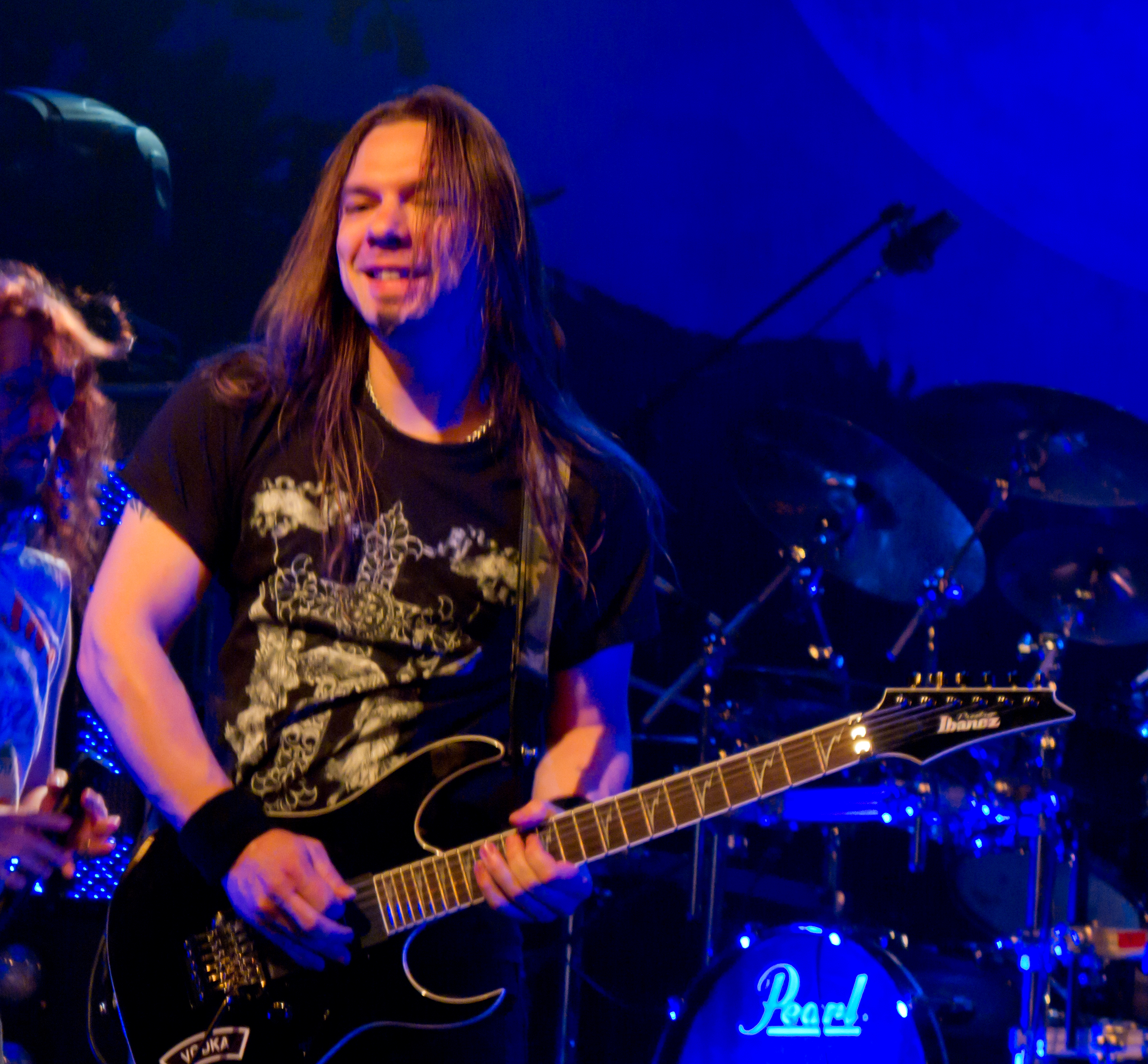 Elias Viljanen (Sonata Arctica) in concert.